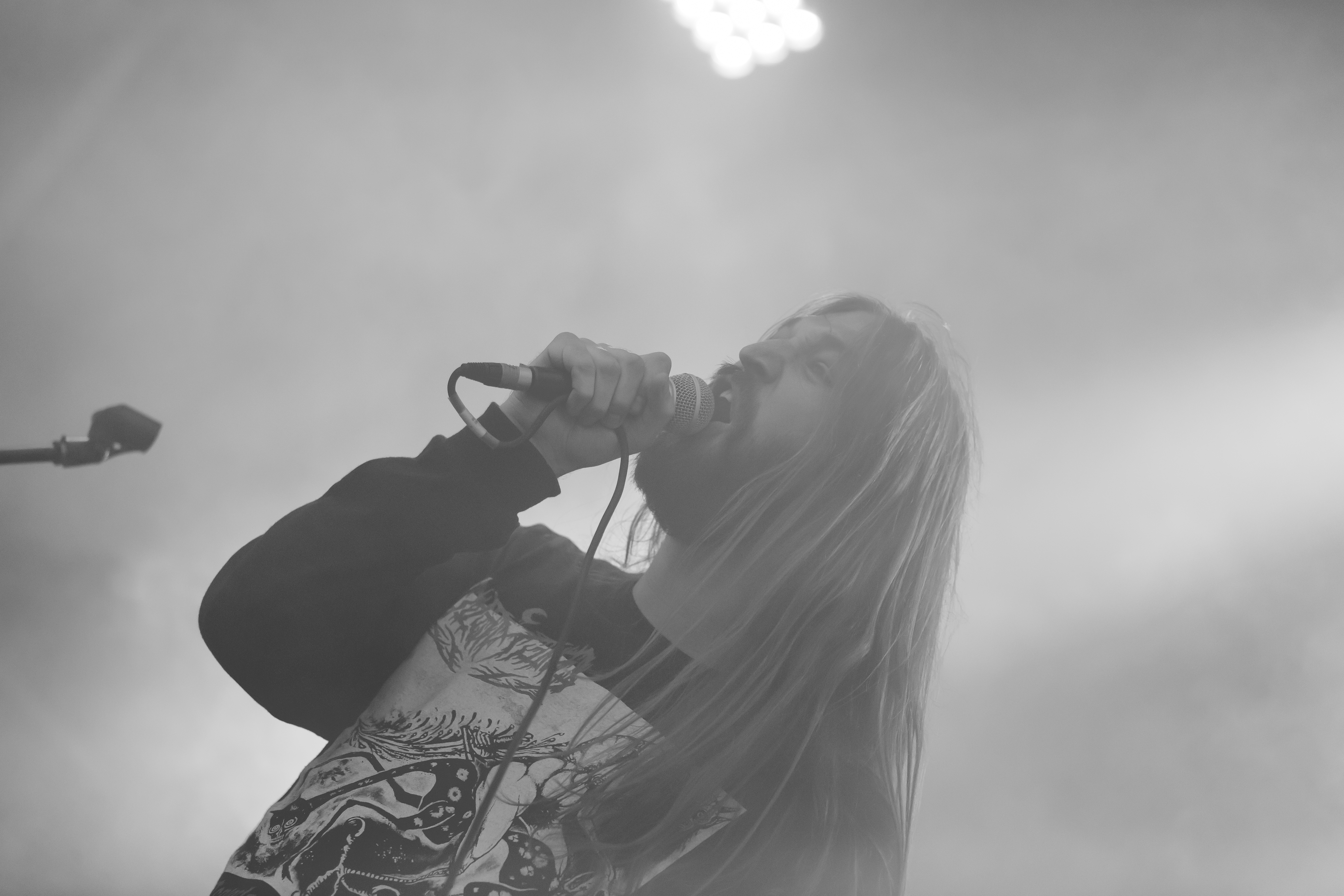 Harakiri for the Sky during Summer Breeze 2016 at , Dinkelsbühl, Bayern, Germany on 2016-08-20, Photo: Sven Mandel